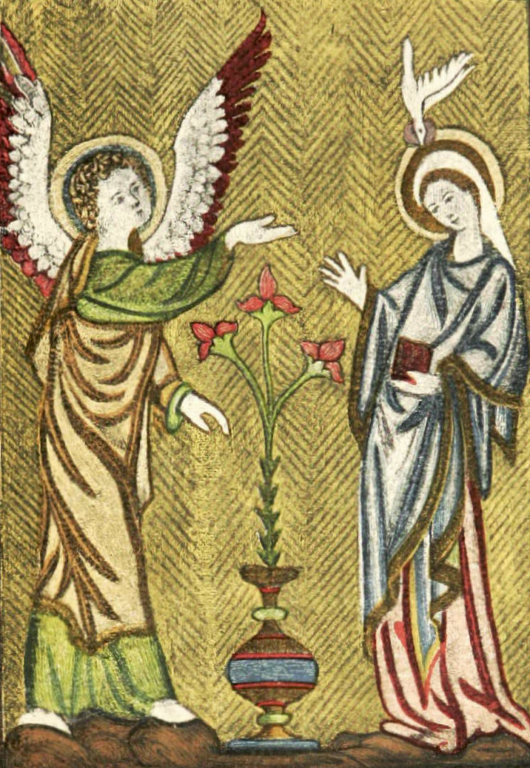 Embroidered bookbinding. "The earliest example of an embroidered book in existence is, I believe, the manuscript English Psalter written in the thirteenth century, which afterwards belonged to Anne, daughter of Sir Simon de Felbrigge, K. G., standard-bearer to Richard ii. Anne de Felbrigge was a nun in the convent of Minoresses at Bruisyard in Suffolk, during the latter half of the fourteenth century, and it is quite likely that she herself worked the cover—such work having probably been largely done in monasteries and convents during the middle ages. "On the upper side is a very charming design of the Annunciation, and, on the under, another of the Crucifixion, each measuring 7¾ by 5¾ inches. In both cases the ground is worked with fine gold threads 'couched' in a zigzag pattern, the rest of the work being very finely executed in split-stitch by the use of which apparently continuous lines can be made, each successive stitch beginning a little within that immediately preceding it—the effect in some places being that of a very fine chain-stitch. The lines of this work do not in any way follow the meshes of the linen or canvas, as is mostly the case with book-work upon such material, but they curve freely according to the lines and folds of the design."